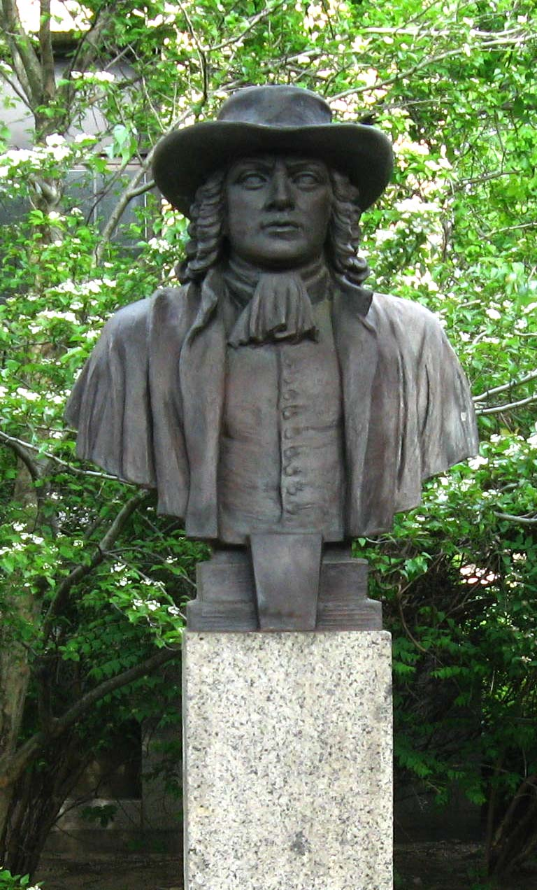 Bust of William Penn in Hall of Fame for Great Americans